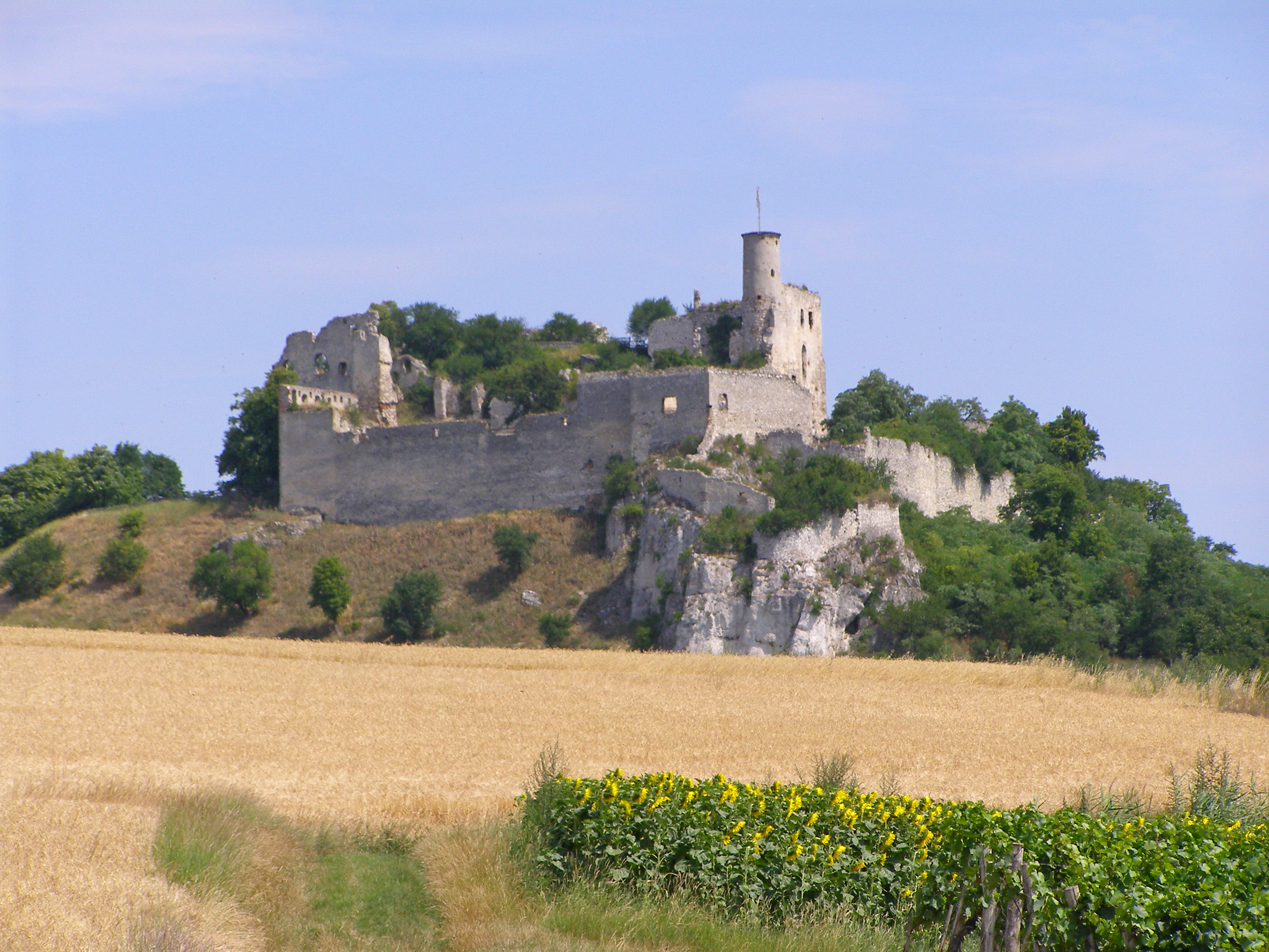 Castle Falkenstein